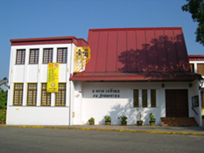 Main façade of the church A Nosa Señora da Xunqueira in Vilagarcía Arousa